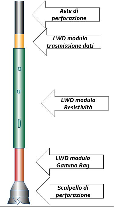 sketch of BHA with Logging while drilling instrument